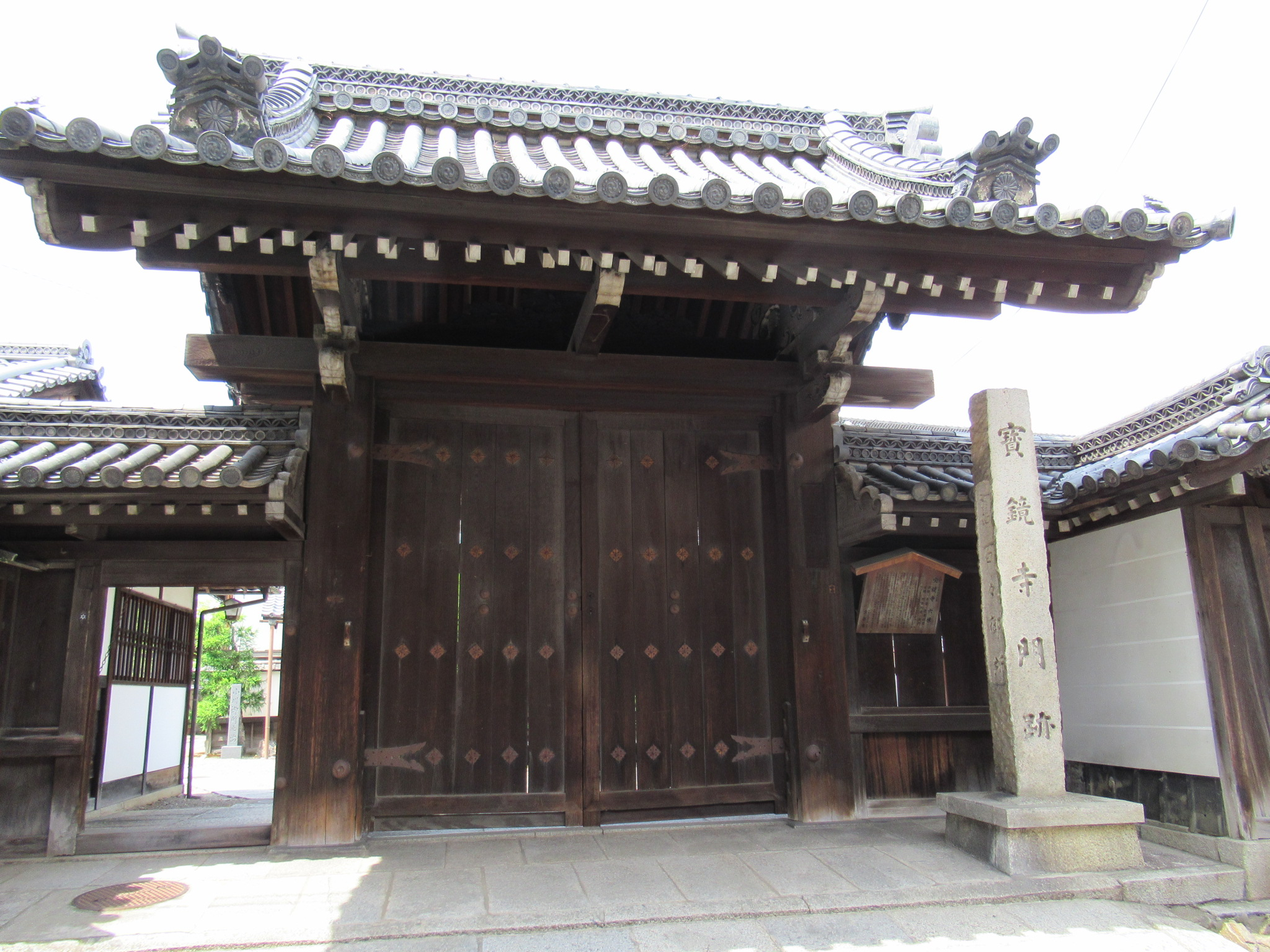 Hōkyō-ji, Kamigyo-ku, Kyoto.